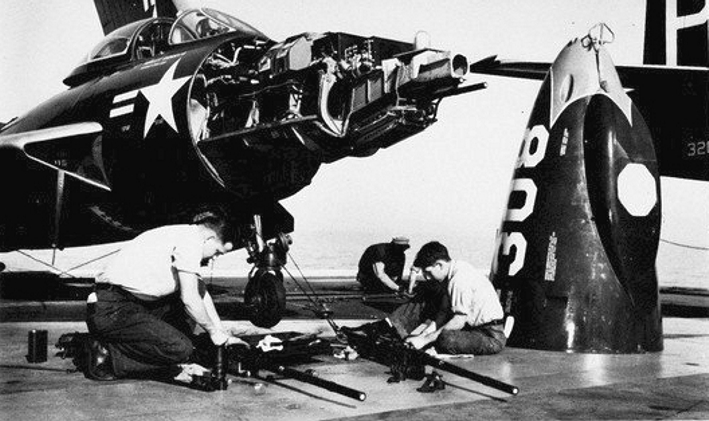 Maintenance on the 20 mm M3 cannon of a U.S. Navy Grumman F9F-6 Cougar of Fighter Squadron 103 (VF-103) "Flying Cougars" aboard the aircraft carrier USS Coral Sea (CVA-43). VF-103 was assigned to Carrier Air Group 10 (CVG-10) aboard the Coral Sea for a deployment to the Mediterranean Sea from 7 July to 20 December 1954.